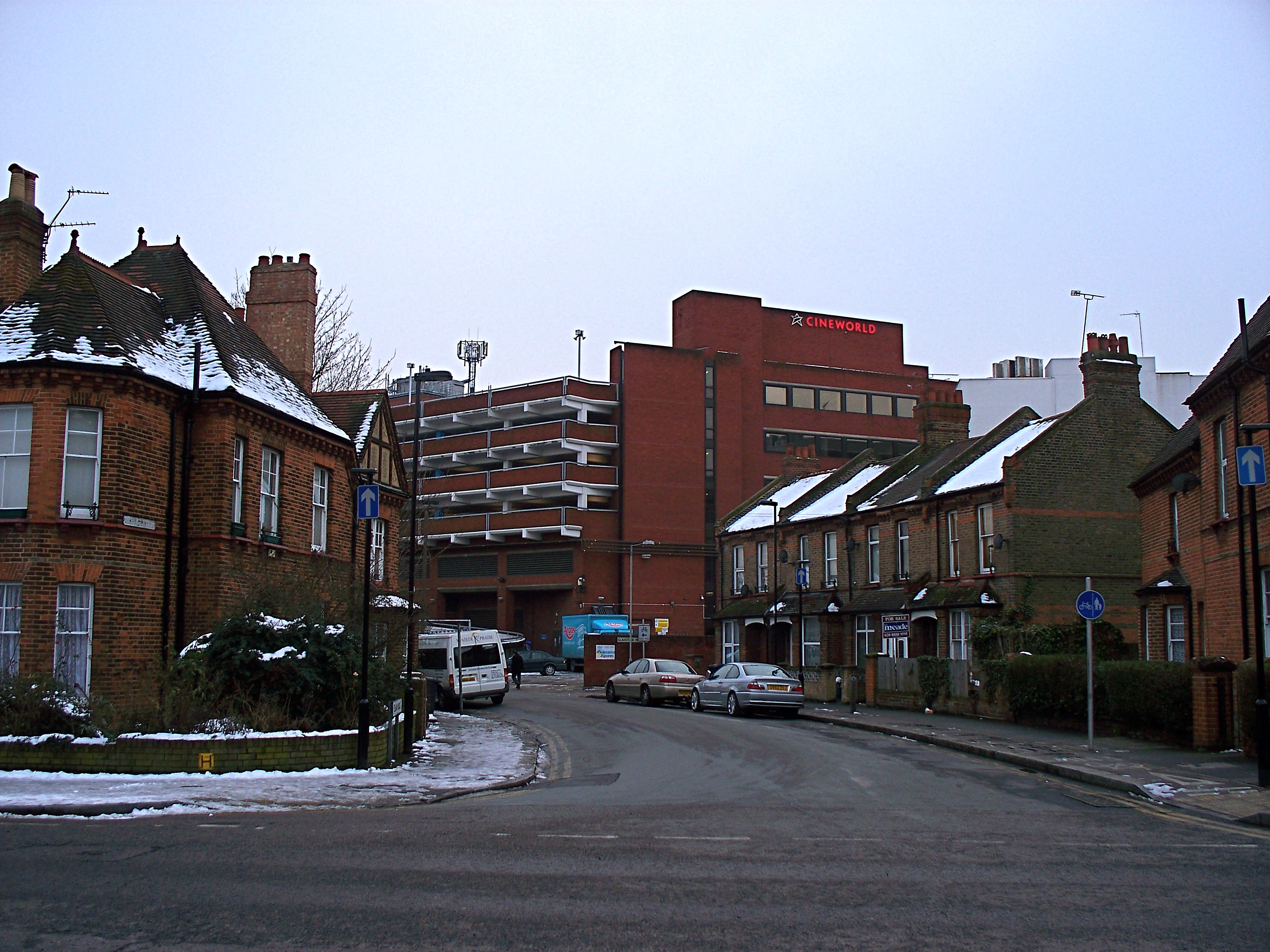 The Mall Wood Green dominates residential streets in Noel Park, London N22. Photograph taken in a public location in the UK of a building on permanent public display, and exempt from copyright under Section 62 of the Copyright Designs & Patents Act 1988 ("it is not an infringement of copyright to film, photograph, broadcast or make a graphic image of a building, sculpture, models for buildings or work of artistic craftsmanship if that work is permanently situated in a public place or in premises open to the public")